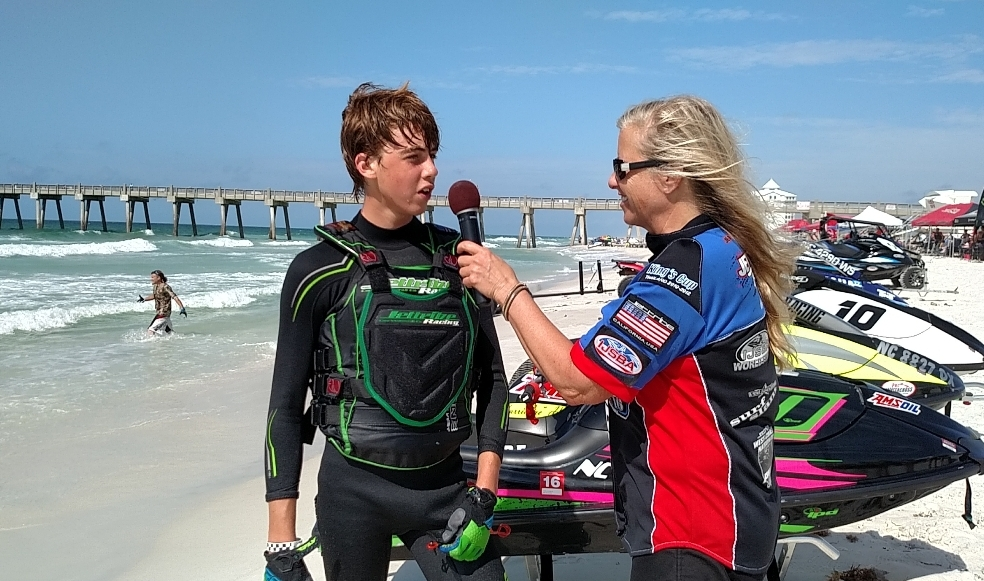 Pro Watercross is a national American tour that brings riders across the country every year to compete for a national title. Dawn has been involved with the tour for several years, and is seen interviewing junior Ski rider (at the time), Bret Underhill. This particular event took place in staple PWC location, Pensacola (Florida)